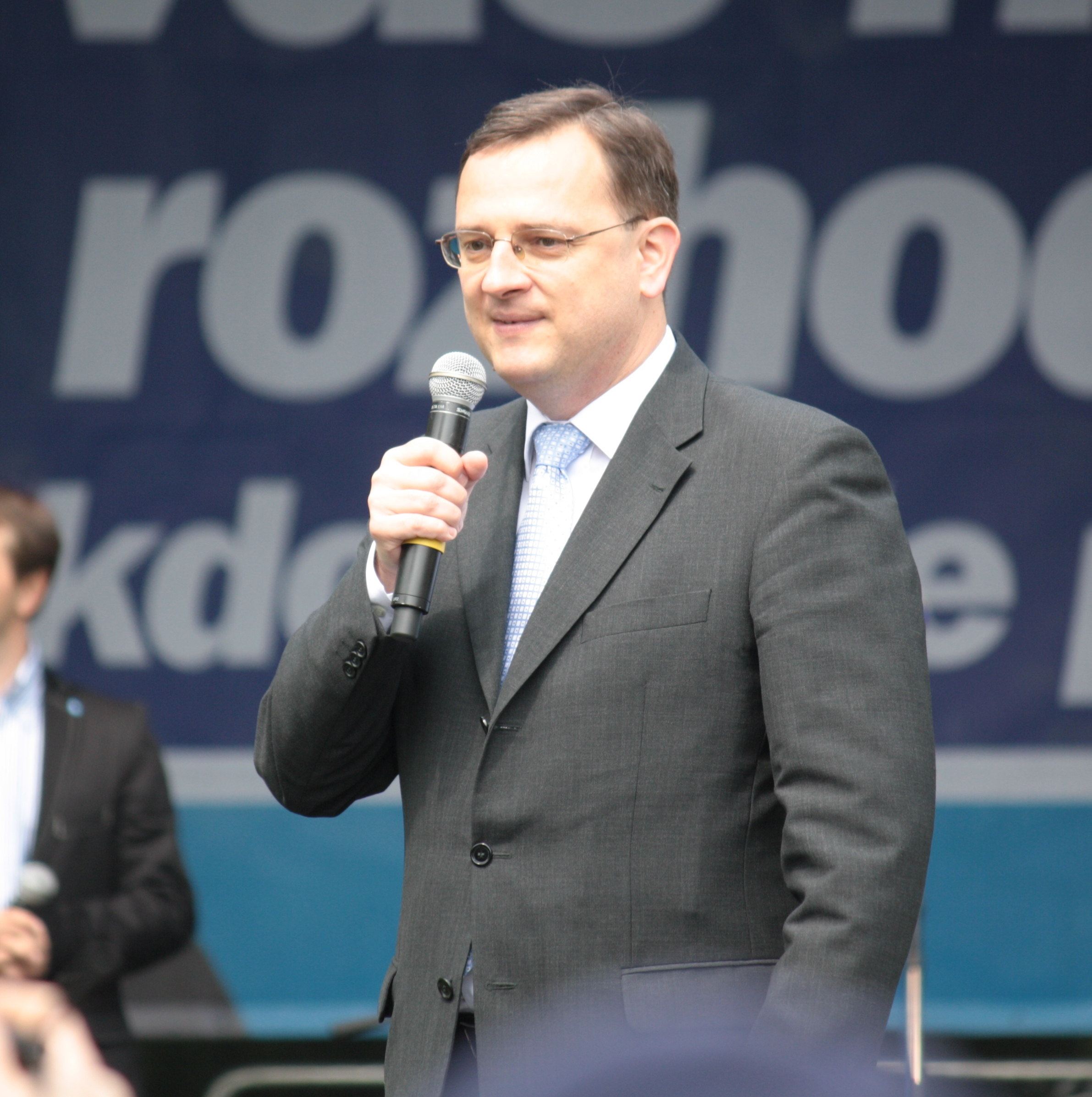 Party chairman Petr Nečas during ODS election campaign meeting on Prague island Kampa